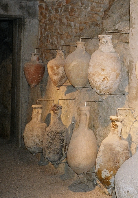 Įvairios formos amforos / Amphorae of different shapes. Pula.